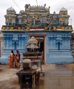 Tirukandisvaram pasupatisvarar temple திருக்கொண்டீஸ்வரம் பசுபதீஸ்வரர் கோயில்